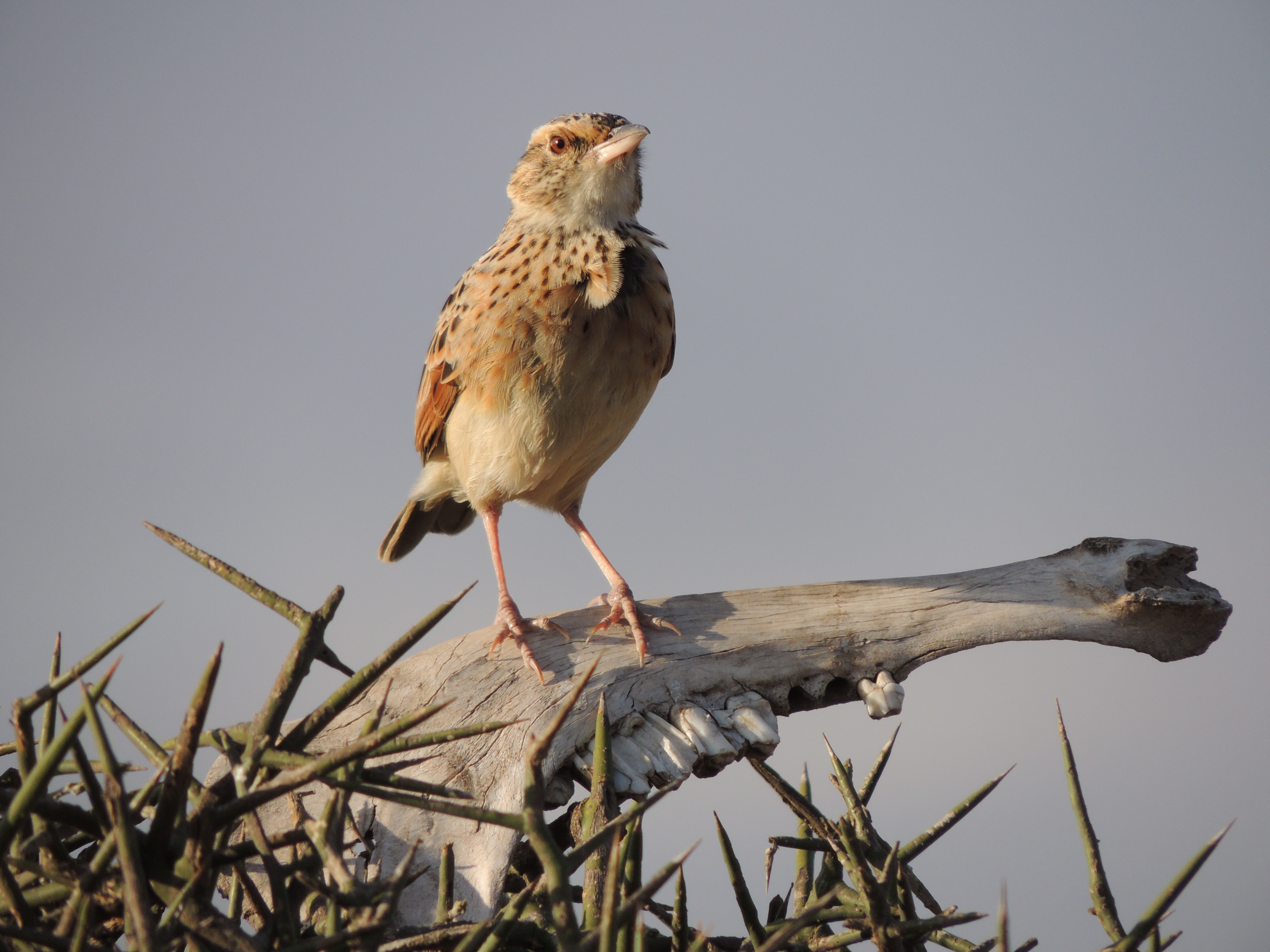 A bird on the jawbone of a farm animal, Nairobi National Park, Kenya.